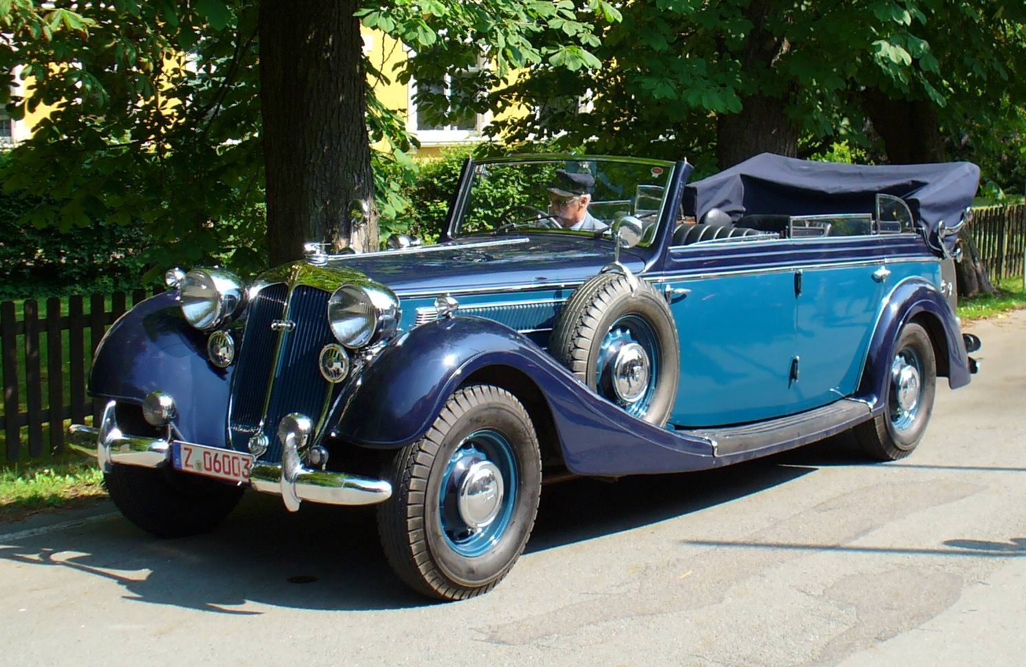 former official car of the German Ambassador Otto Erich Meynell and Hermann Terdenge in Buen Aires (Argentina)